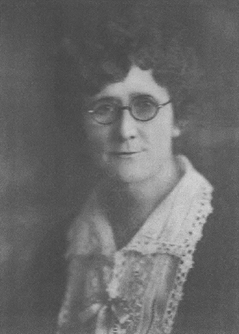 Jeannette Larsen Eitel, wife of George G. Eitel, ca. 1914. Photo was courtesy of Abbott-Northwestern Hospital